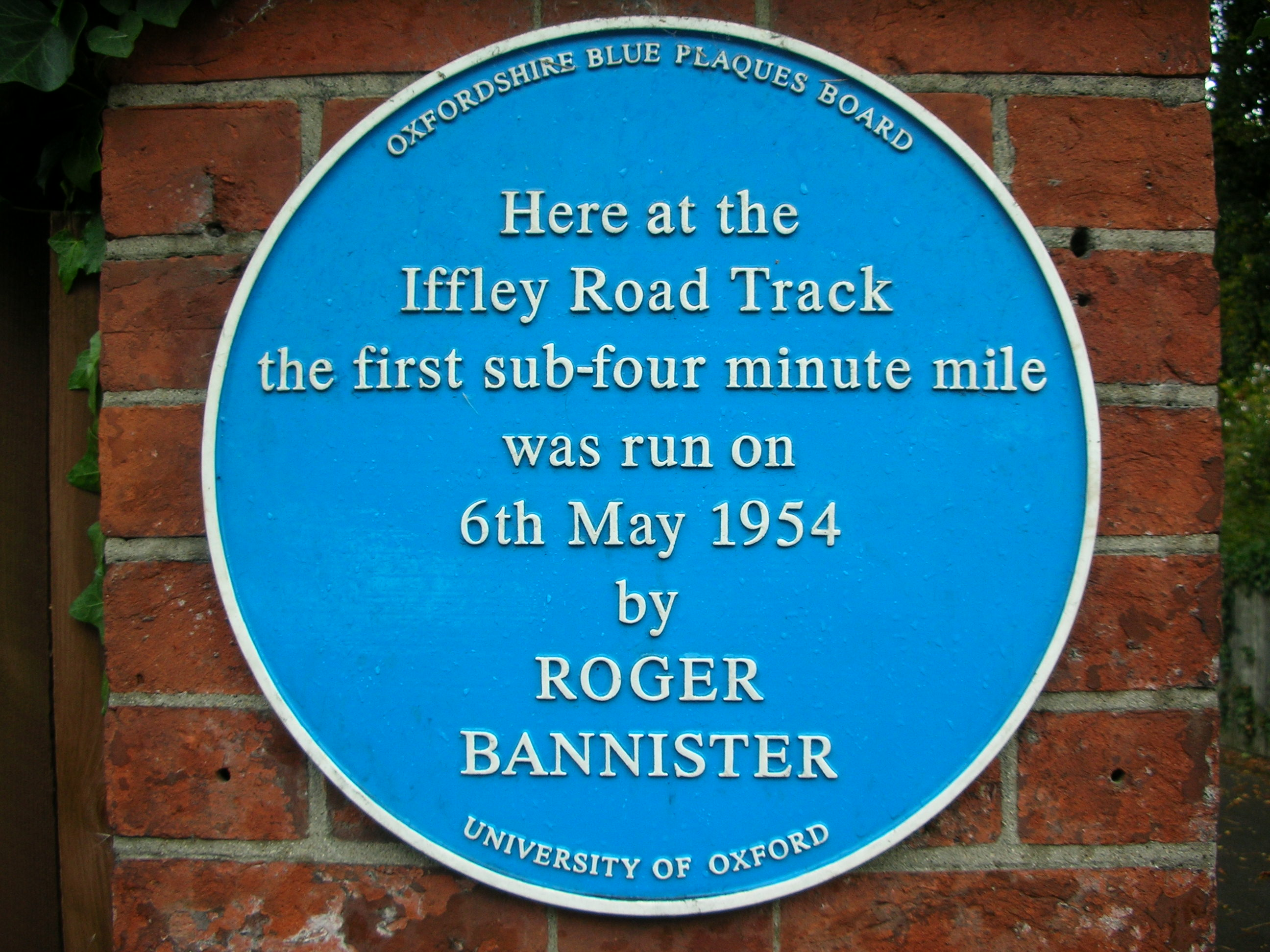 Blue plaque at Iffley Road Track, Oxford, England.